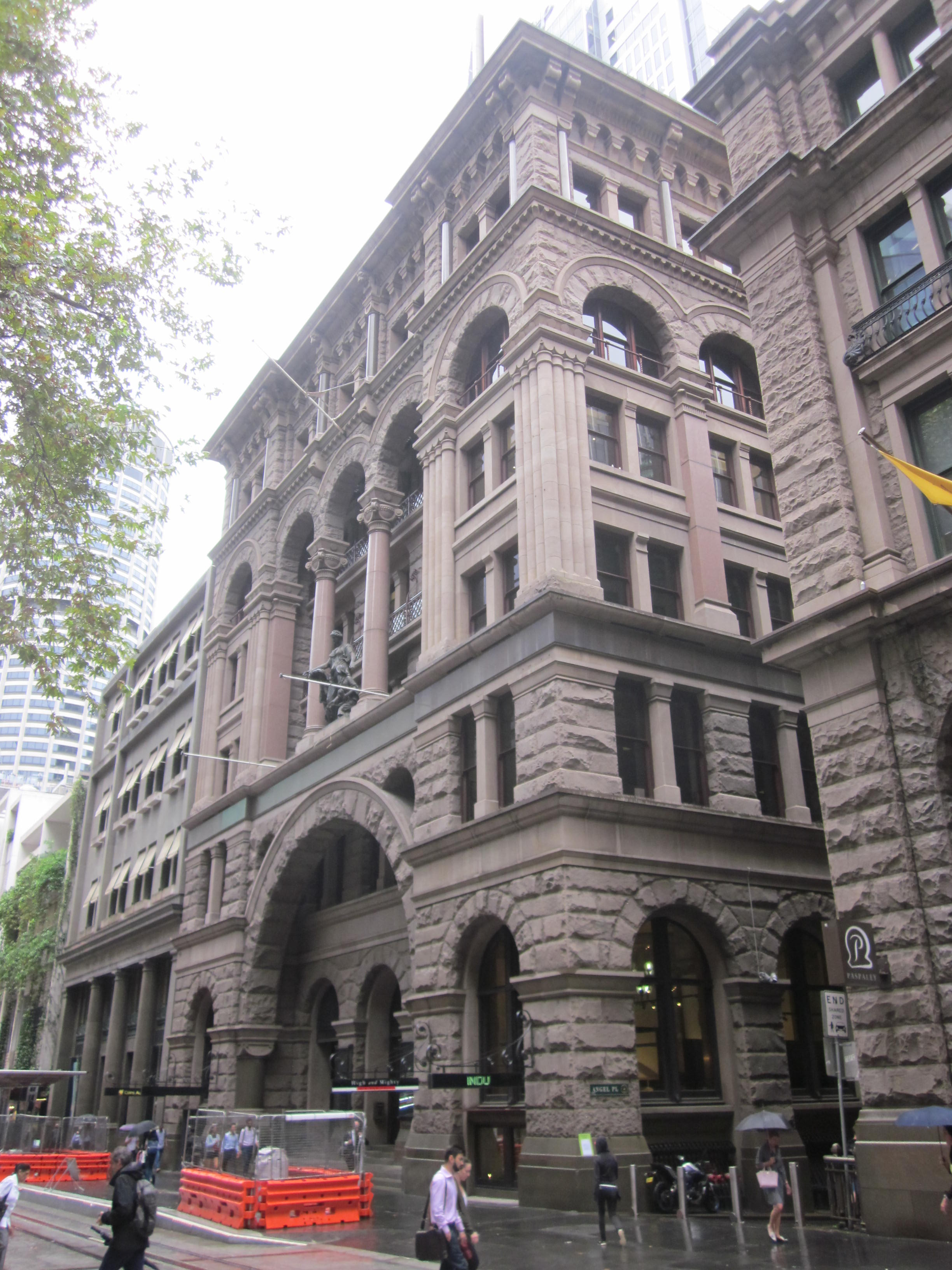 348-352 George Street, Sydney was formerly known as the National Mutual Building. It is listed on the New South Wales State heritage Register